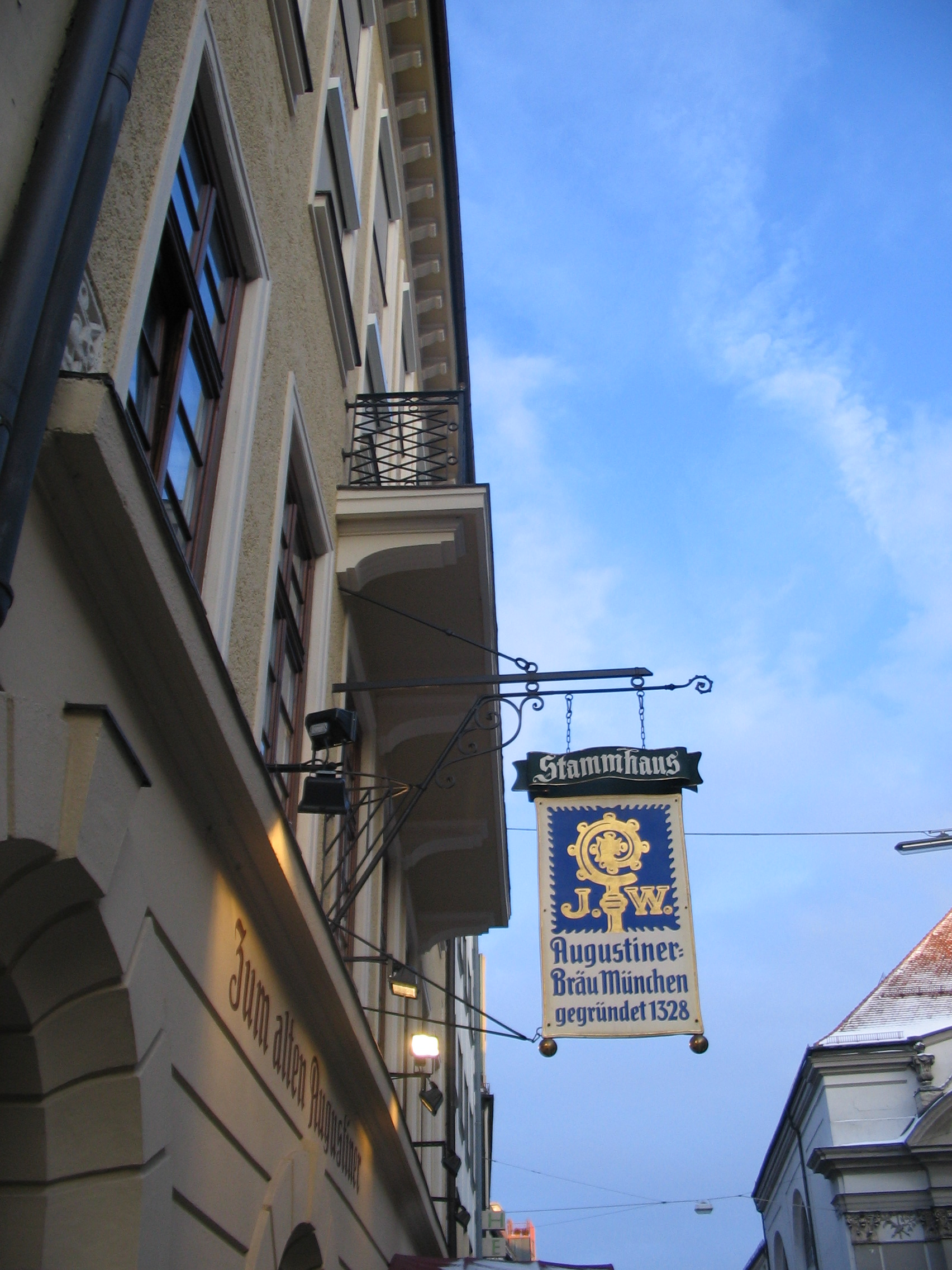 Logo of Augustiner in Munich